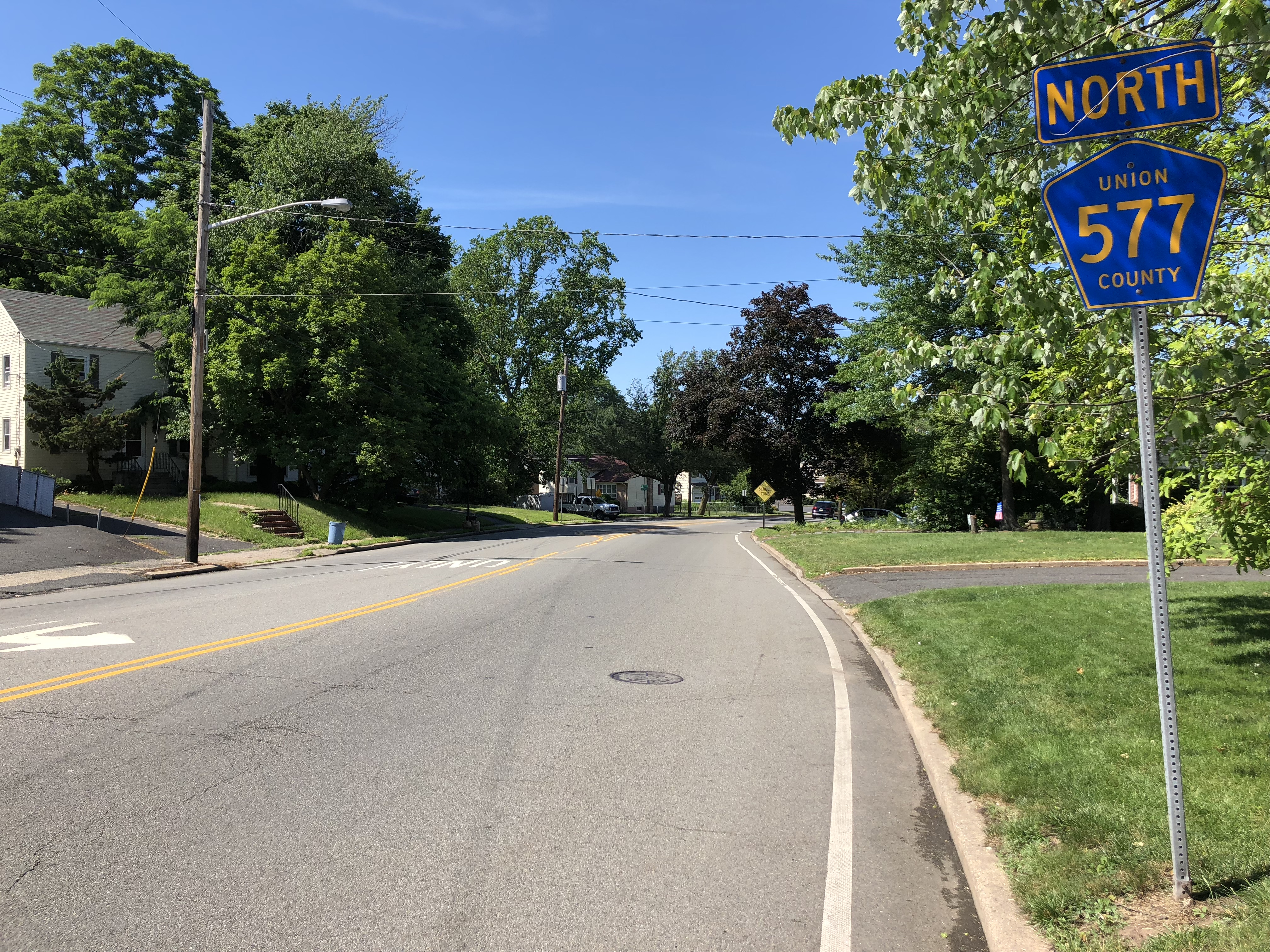 View north along Union County Route 577 (Springfield Avenue) at Union County Route 659 (Hillside Avenue) in Springfield Township, Union County, New Jersey